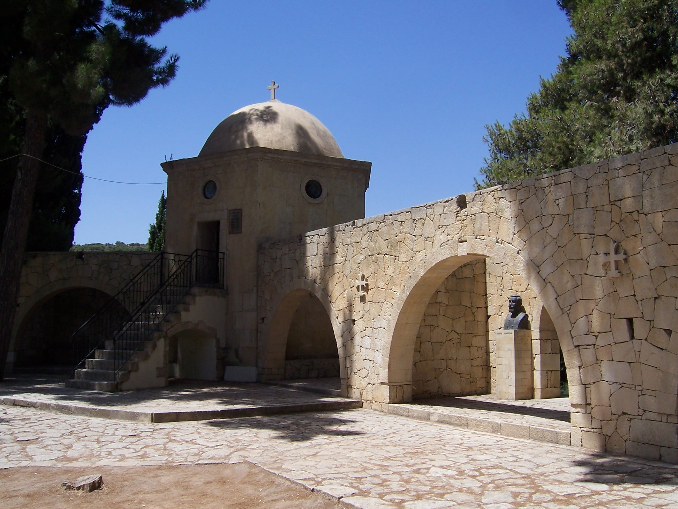 Monastery of Arkadi.